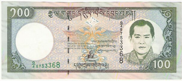 From a journey in Bhutan.